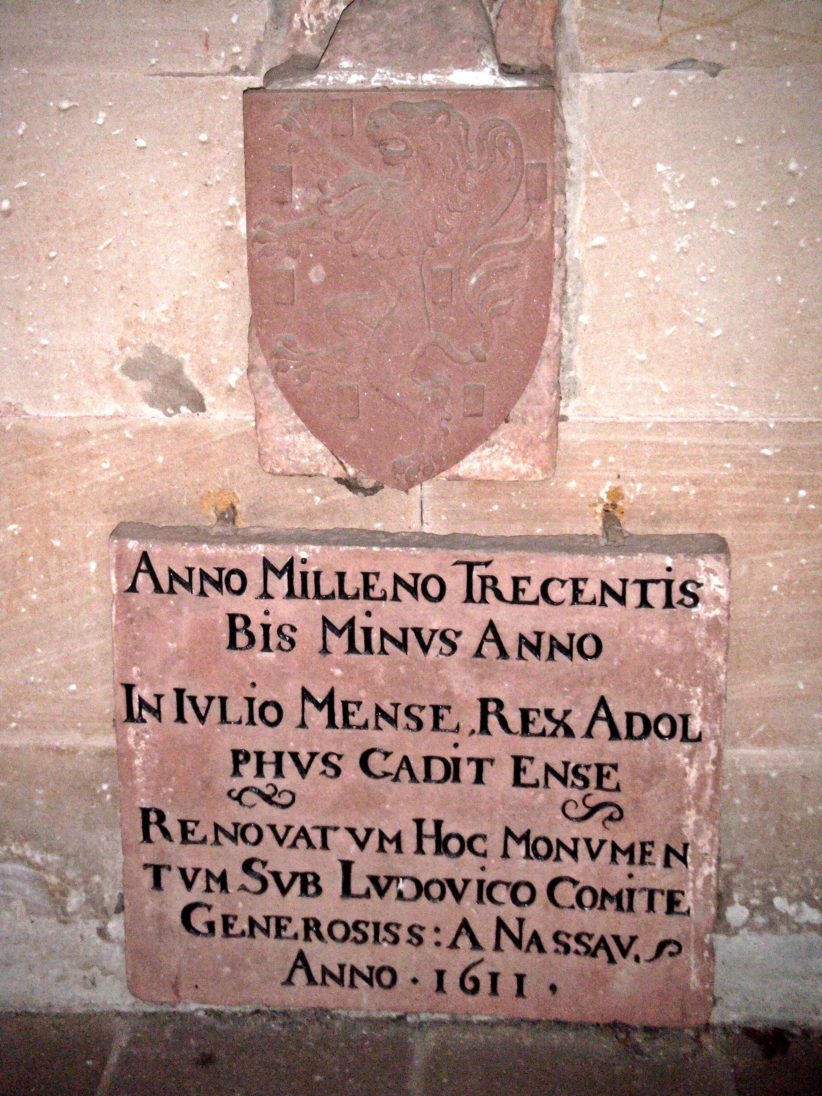 Königskreuz Göllheim, Gedenktafel Renovation 1611